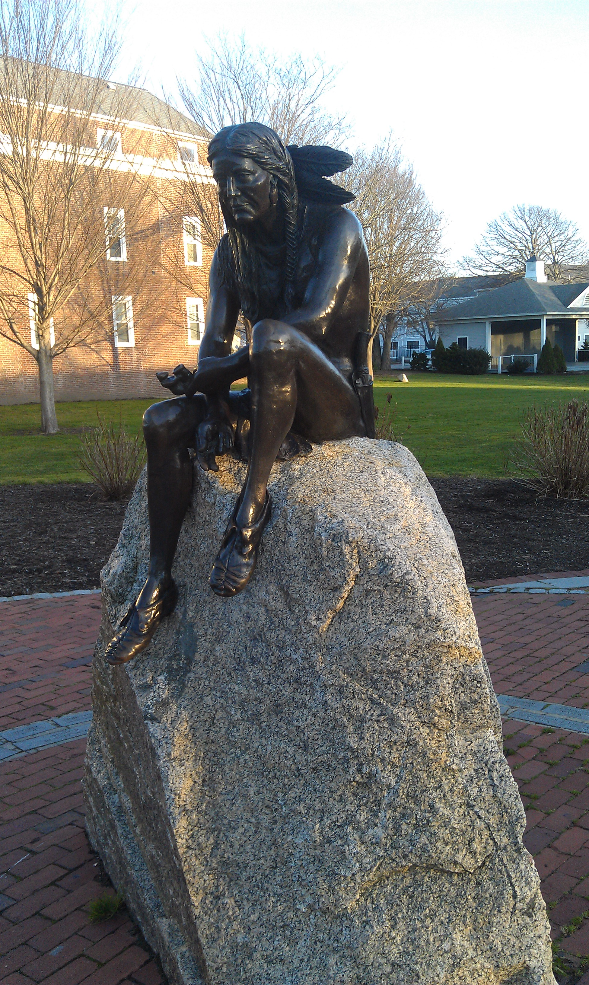 Statute of Sachem Iyanough in Hyannis, MA